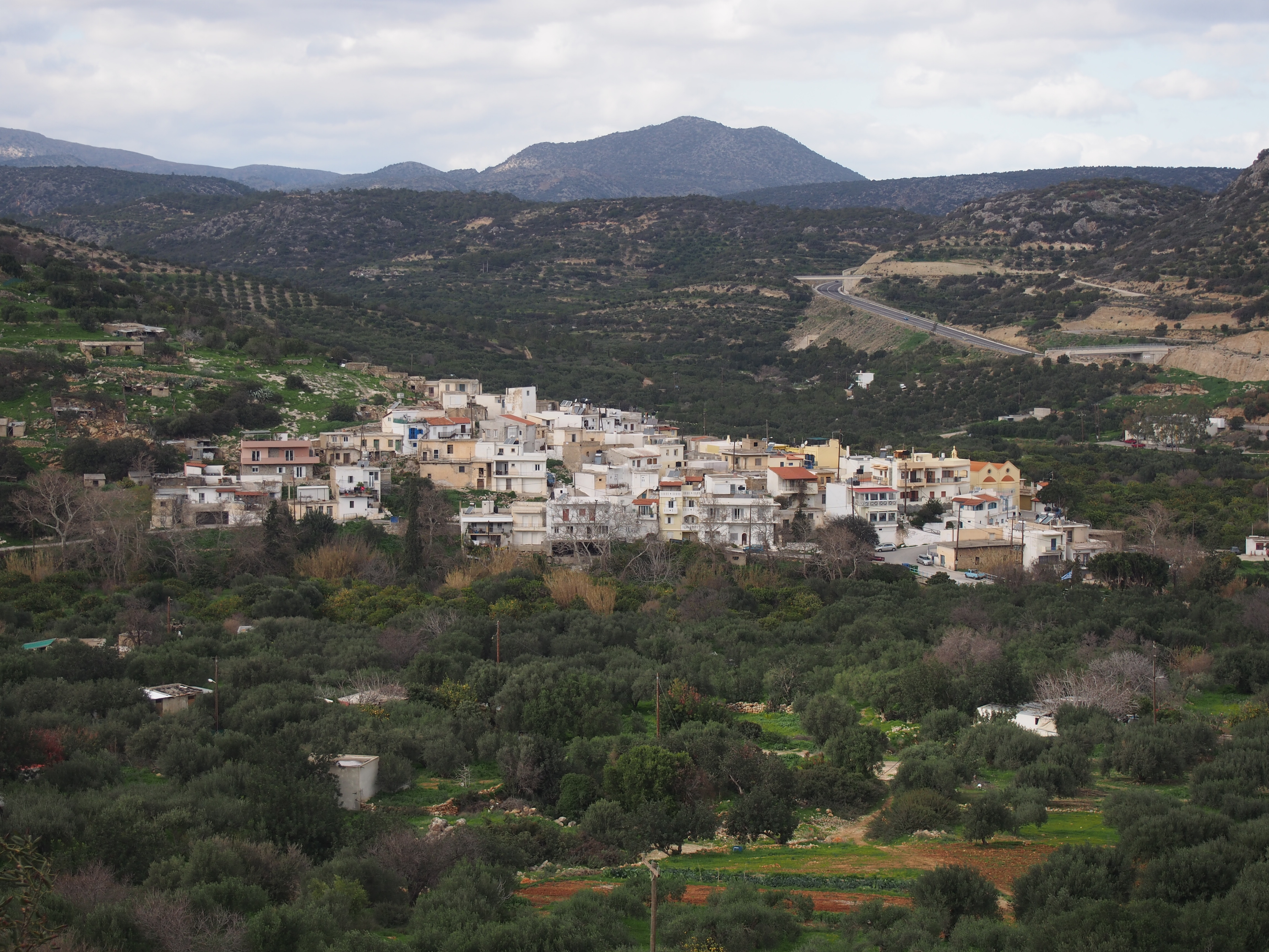 View of Pyrgos, Agios Nikolaos, from SE